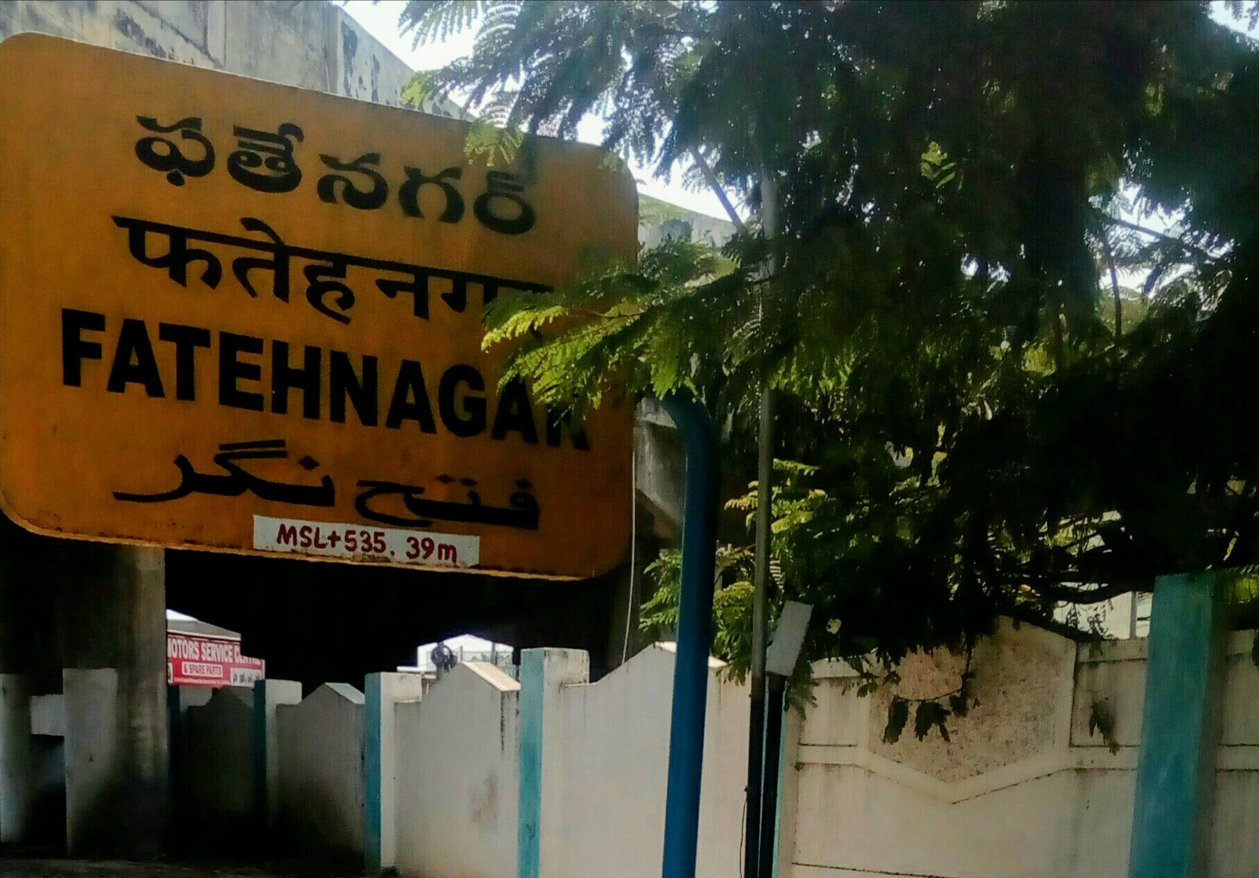 Fatehnagar railway station signboard